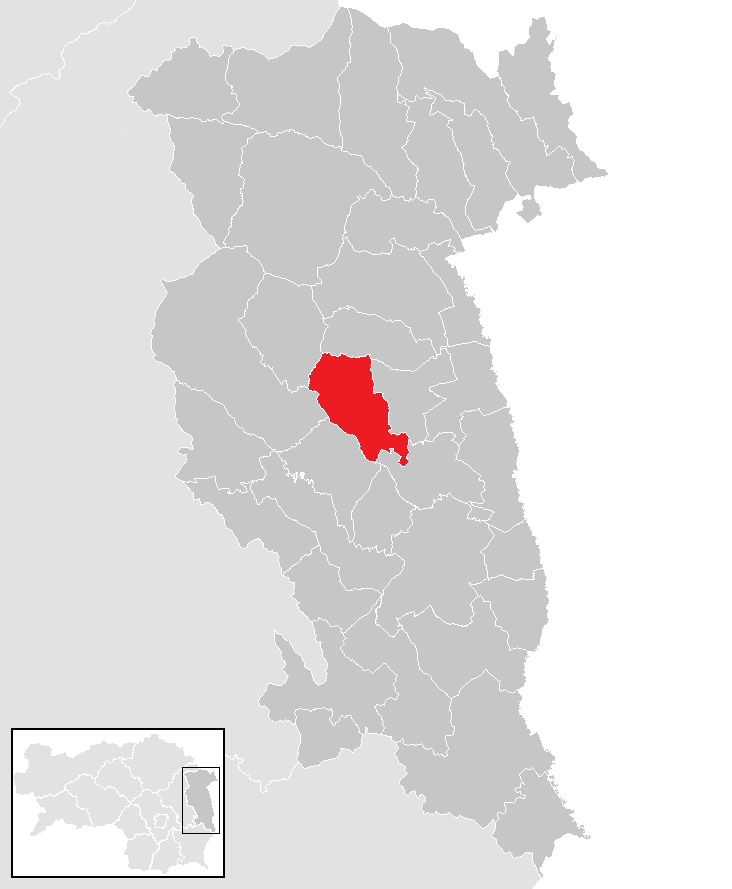 district Hartberg-Fürstenfeld